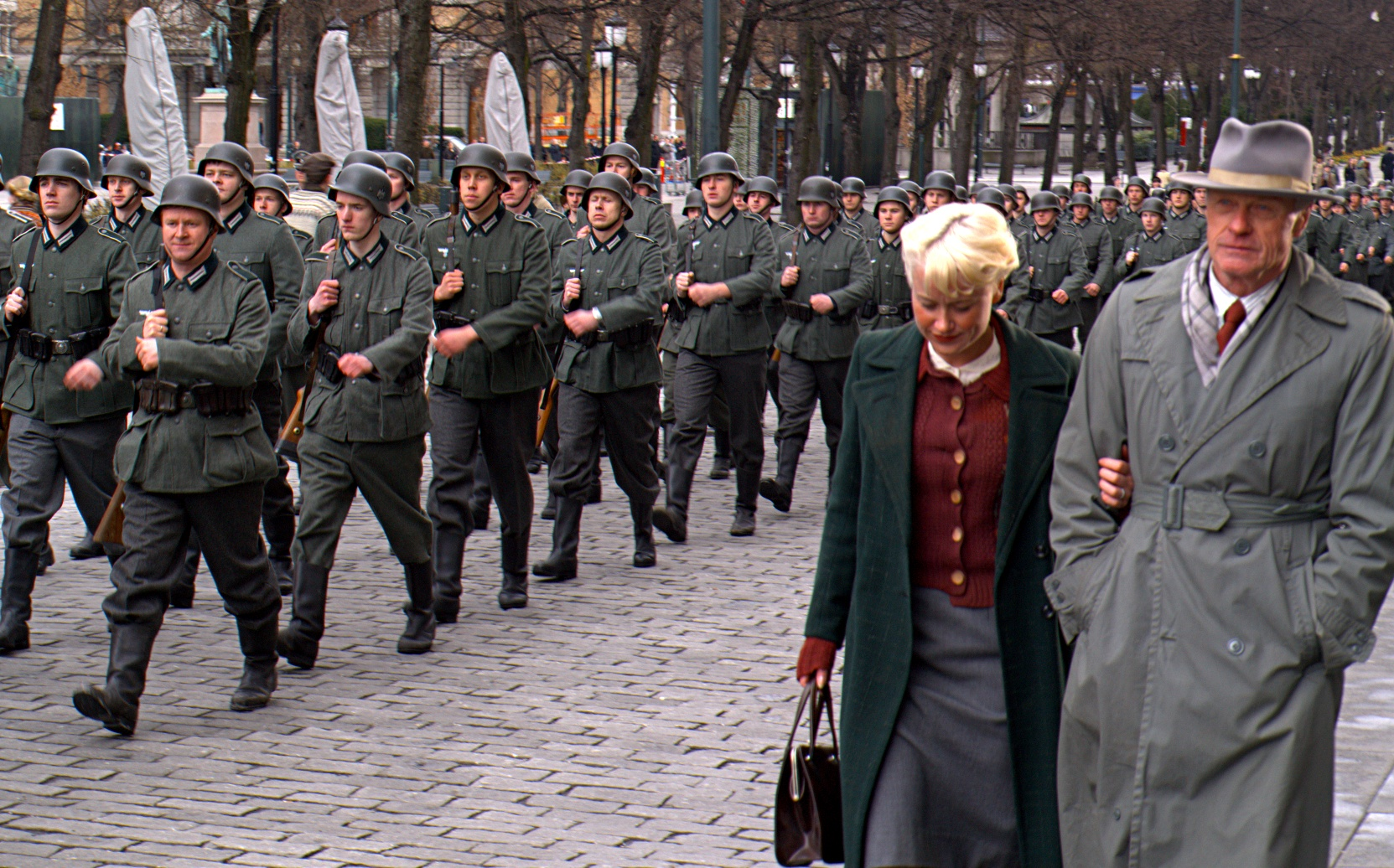 On location in Oslo for the Norwegian movie «Max Manus», a movie about the Norwegian World War II hero Max Manus